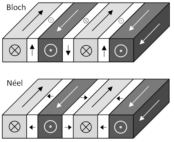 Bloch and Néel magnetic domain walls. Drawing not in scale.